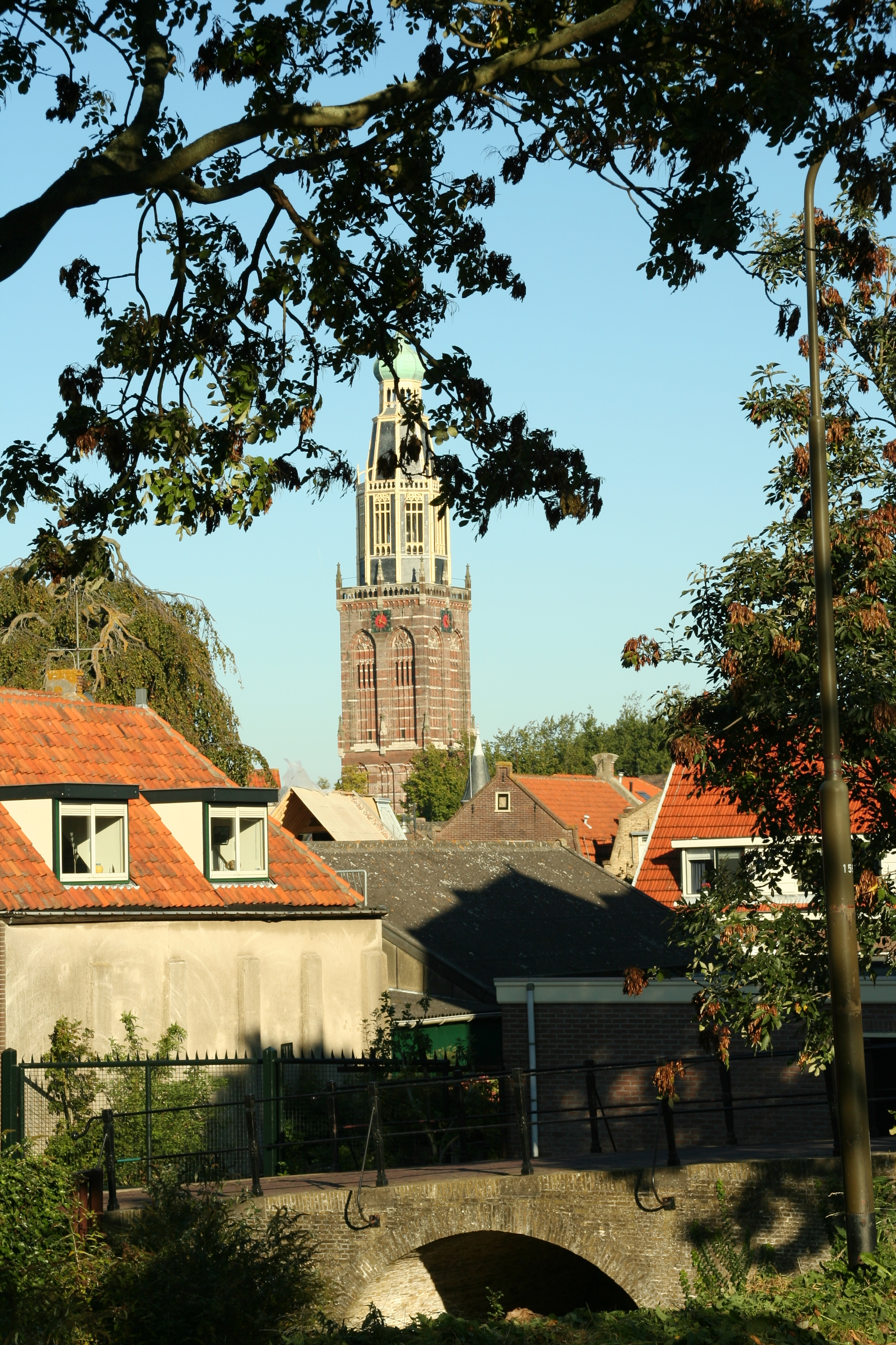 Church (Zuiderkerk) in Enkhuizen, the Netherlands. Photographed by Niels Bosboom in October 2005.